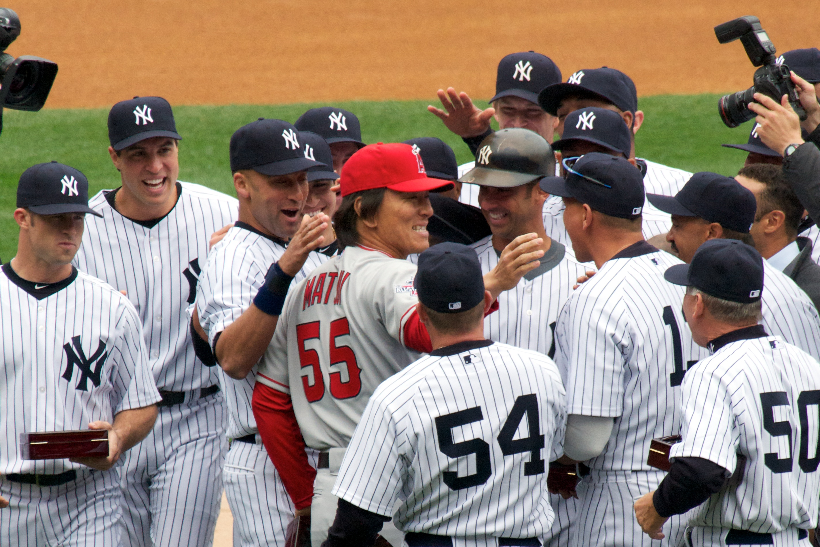 Former New York Yankees player Hideki Matsui of the Los Angeles Angels is greeted by his former teammates at the Yankees' World Series ring ceremony before their home opener.